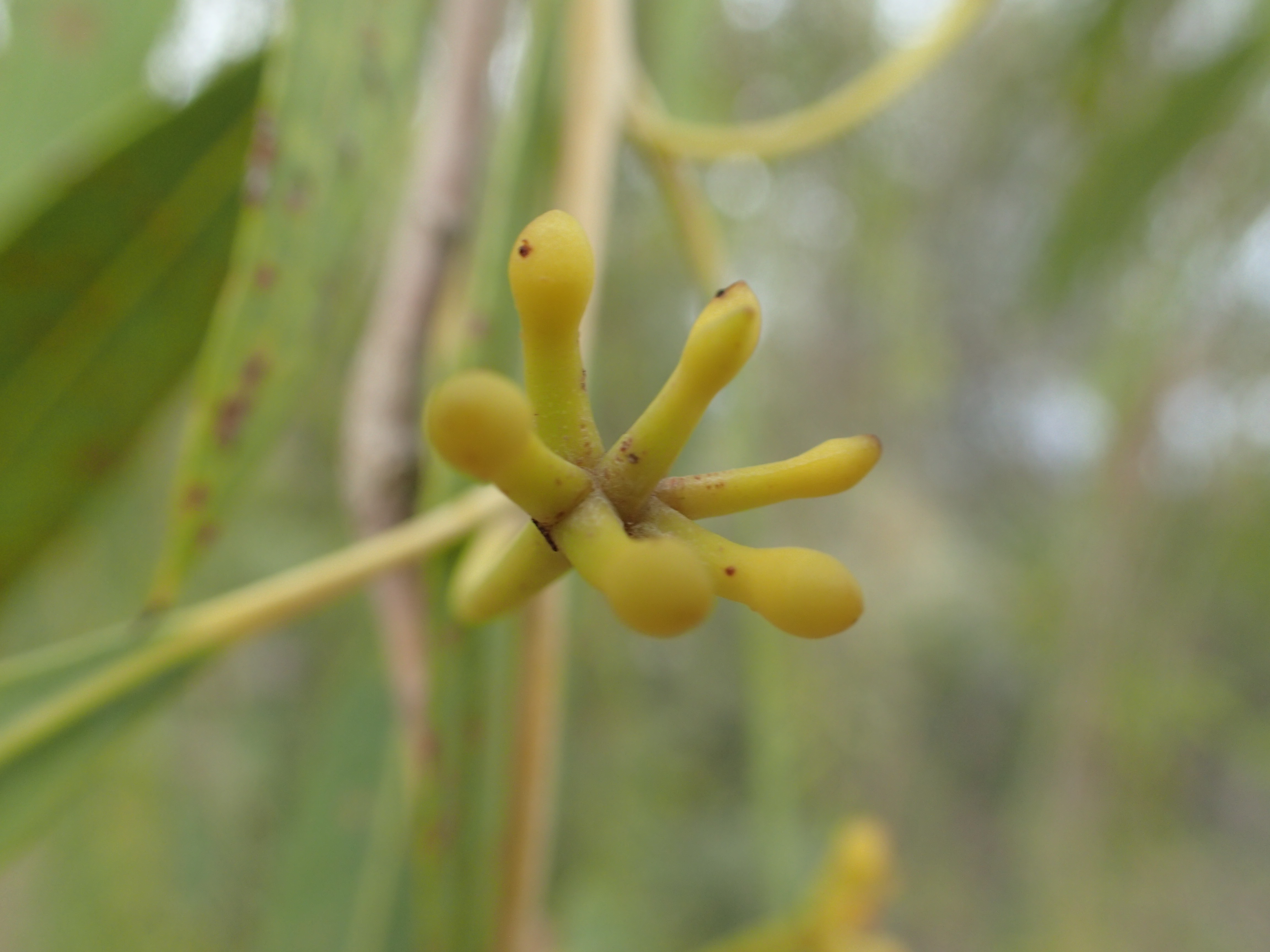 Flower buds of Eucalyptus todtiana in Kings Park, Perth